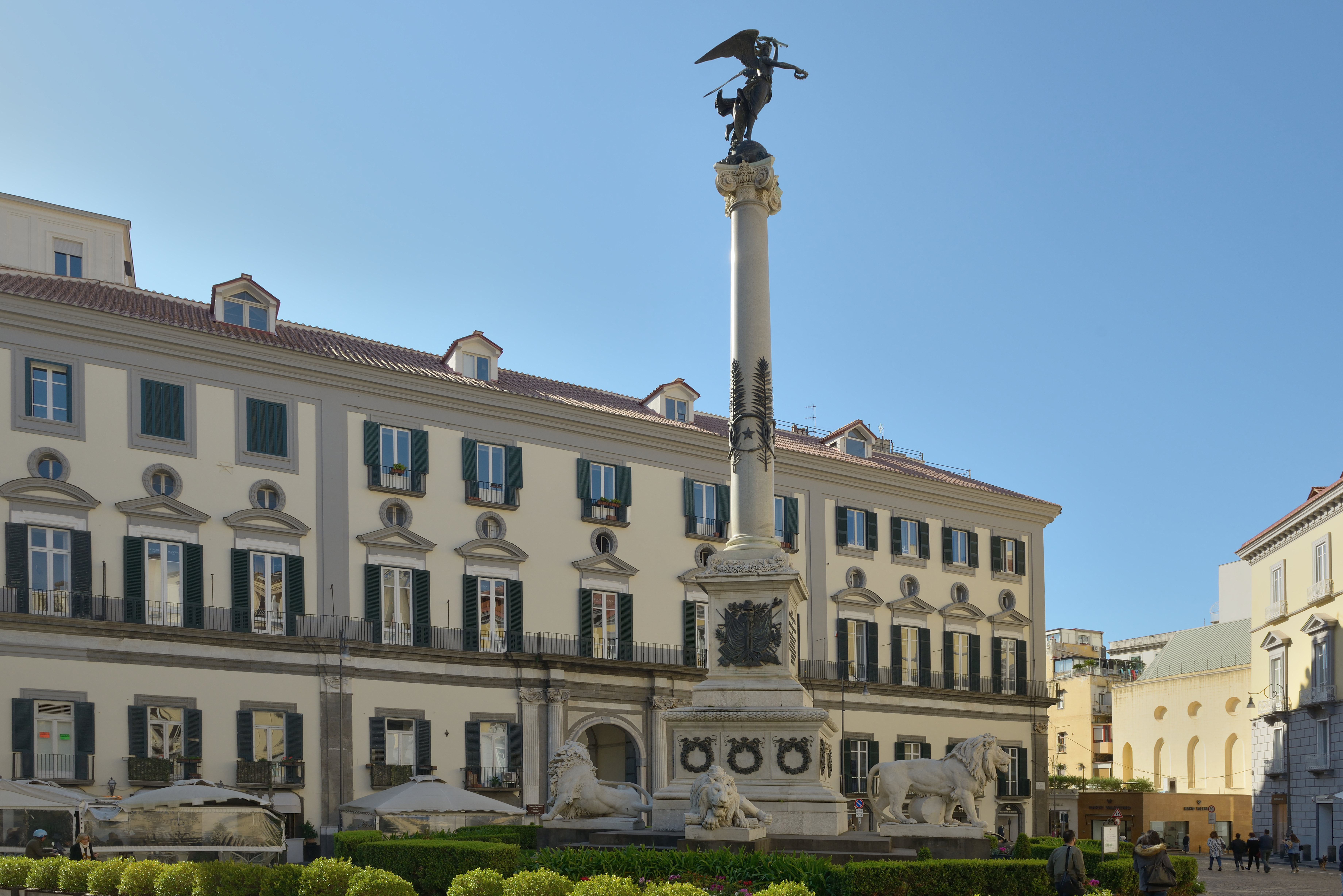 Piazza dei Martiri square in Naples.